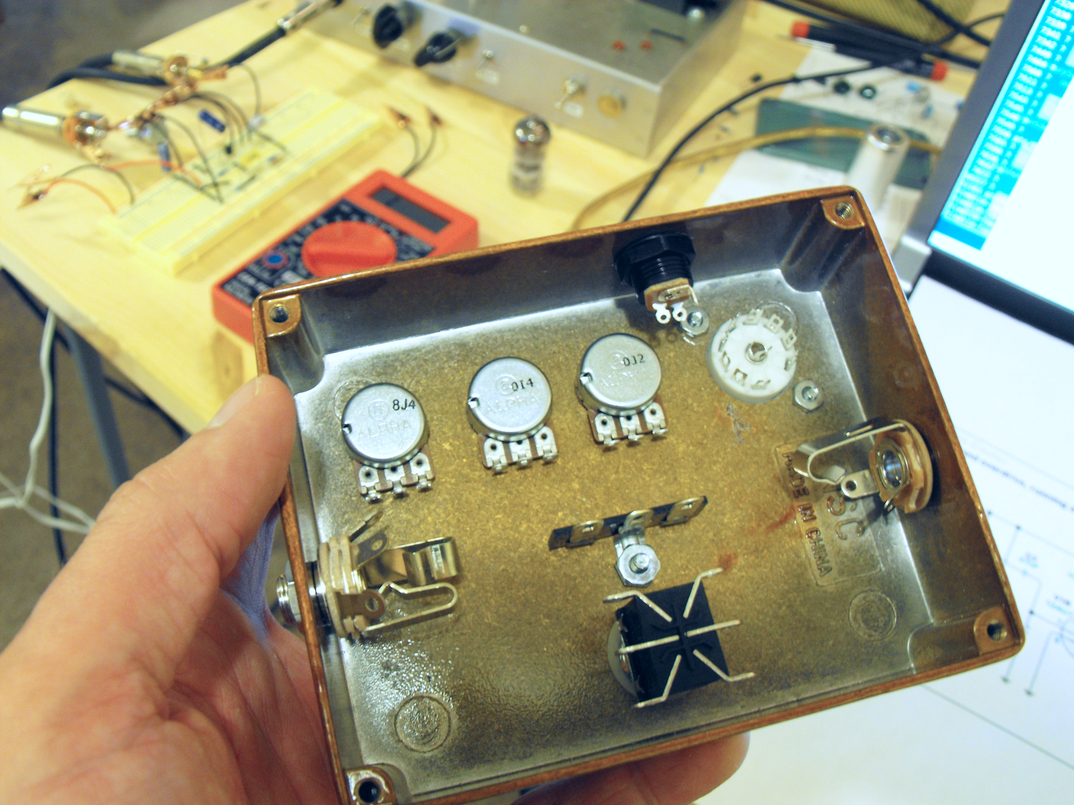 DIY tube overdrive inside without the PCB, ready to be wired up